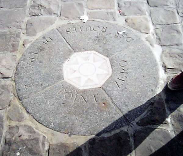 Point zero, Paris - Kilometers of French highways are measured from this point, Place du Parvis (now Place John-Paul II).